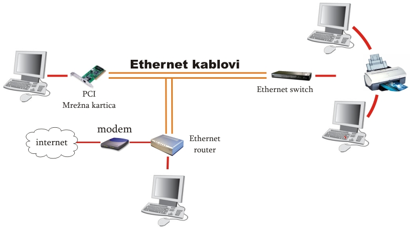 Ethernet network